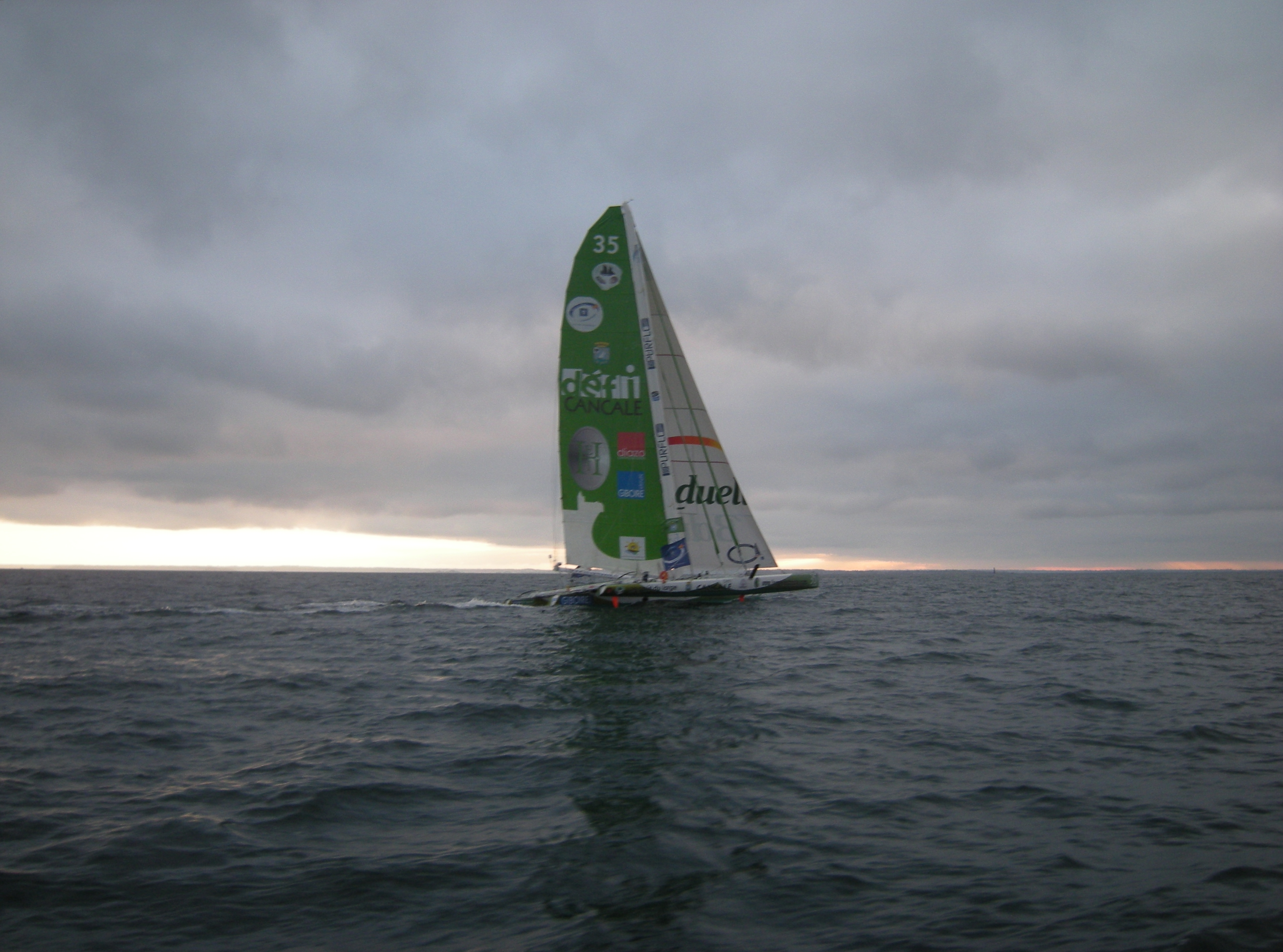 Défi Cancale - Route du Rhum 2010 - N-E Bréhat